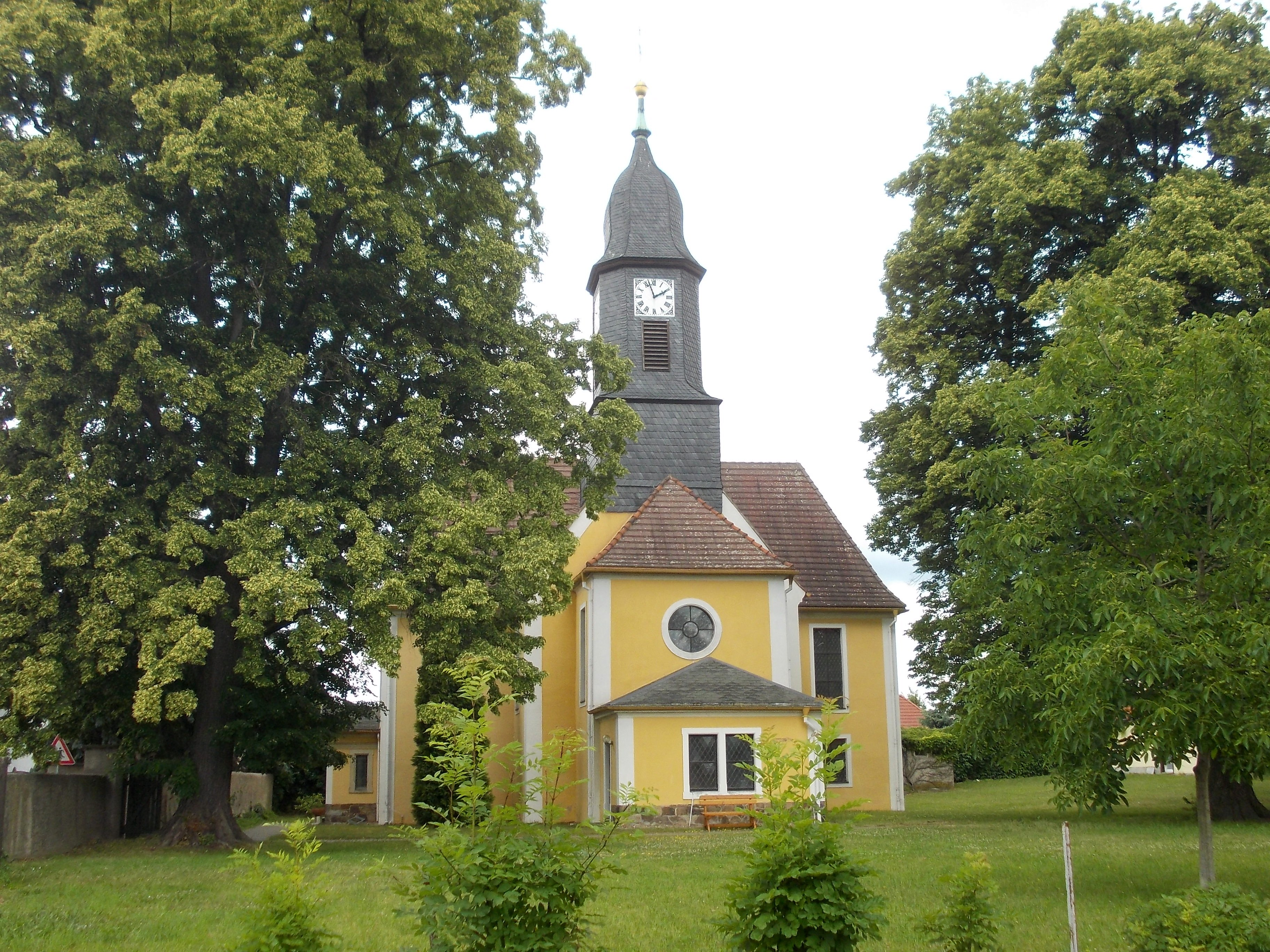 Merschwitz church (Nünchritz, Meissen district, Saxony)